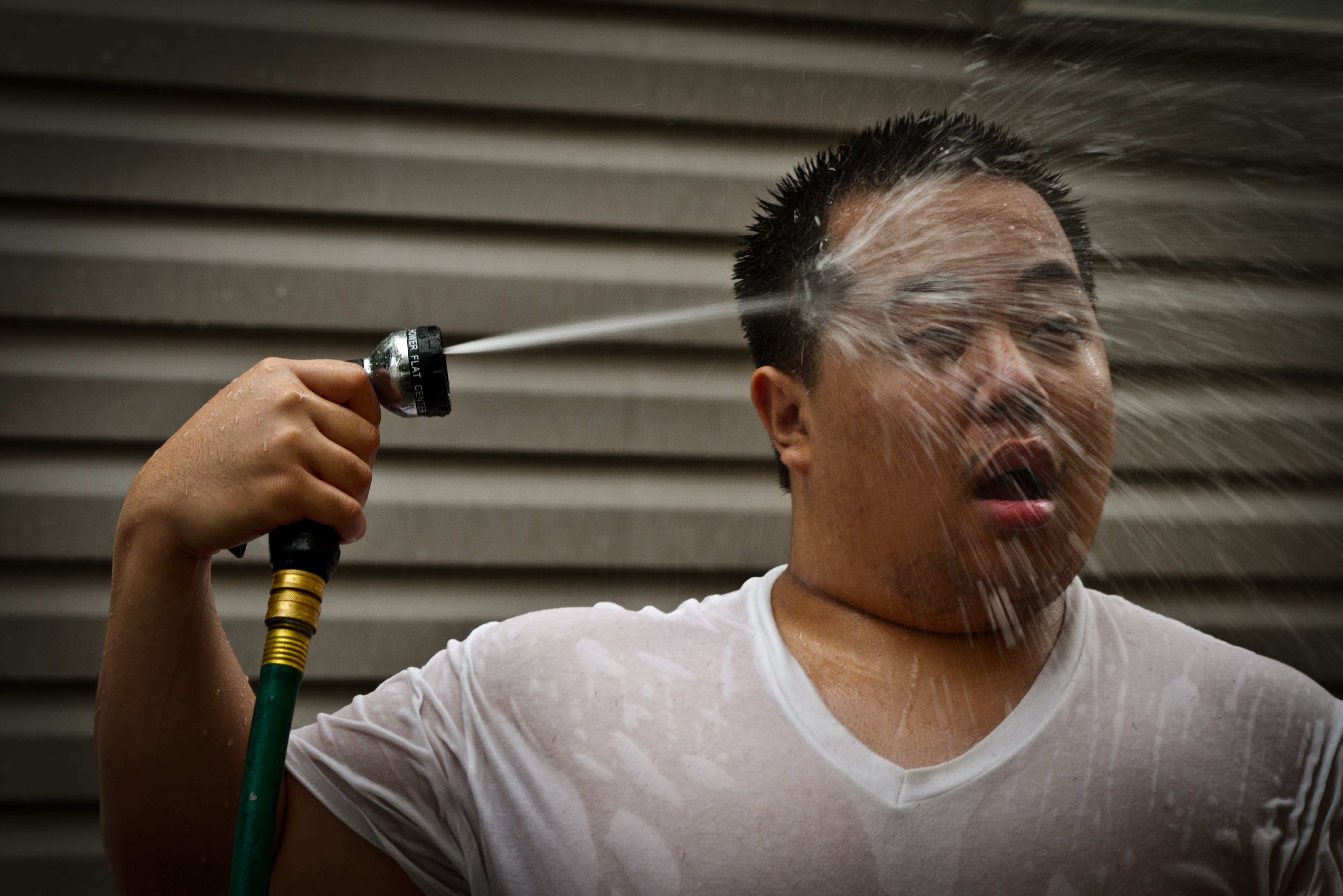 A man seeks relief during a heat wave with a garden hose shower, summer of 2011.